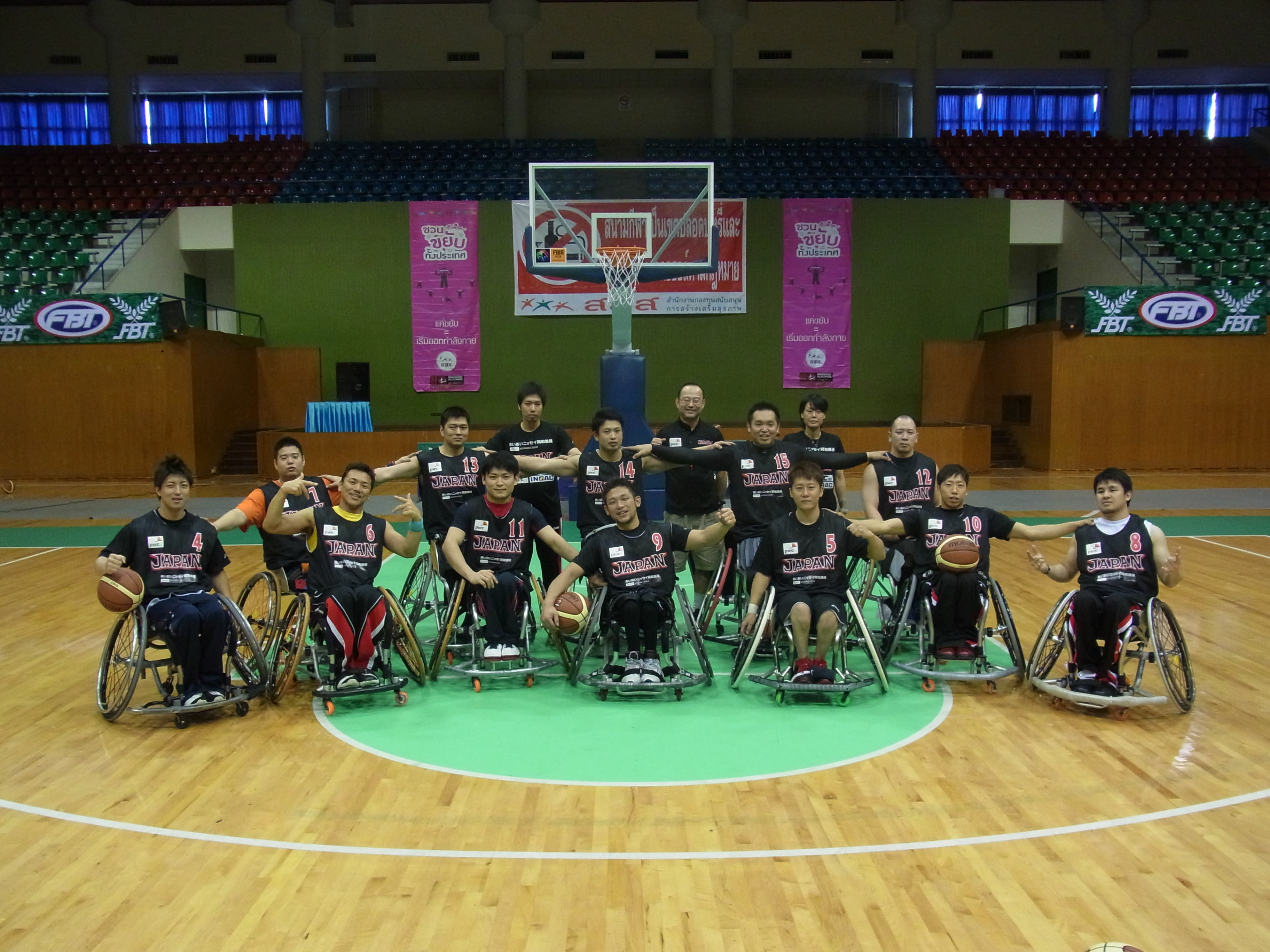 Japan mens wheelchair basketball team 2013